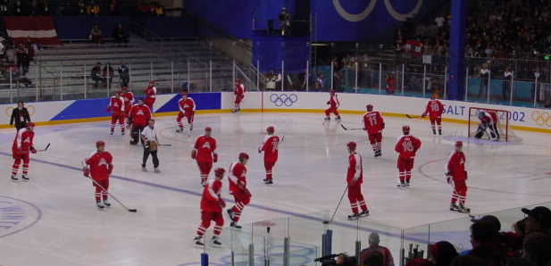 The Austrian men's ice hockey team warms up before a game at the 2002 Winter Olympics.